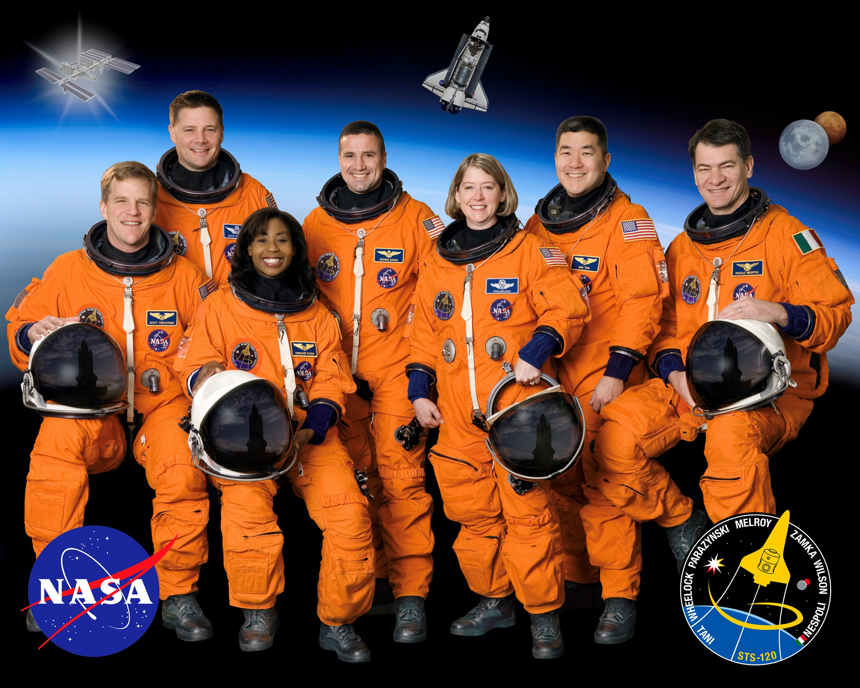 STS-120 crew portrait (16 Feb. 2007) These seven astronauts take a break from training to pose for the STS-120 crew portrait. Pictured from the left are astronauts Scott E. Parazynski, Douglas H. Wheelock, Stephanie D. Wilson, all mission specialists; George D. Zamka, pilot; Pamela A. Melroy, commander; Daniel M. Tani, Expedition 15 flight engineer; and Paolo A. Nespoli, mission specialist representing the European Space Agency (ESA). The crewmembers are attired in training versions of their shuttle launch and entry suits. Tani is scheduled to join Expedition 15 as flight engineer after launching to the International Space Station on mission STS-120 and is scheduled to return home on mission STS-122.